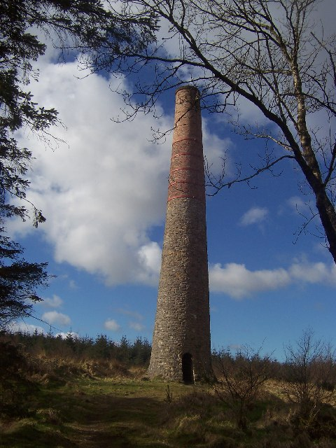 Smitham Chimney in East Harptree Woods, Somerset